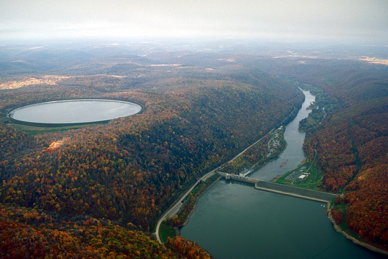 Kinzua Dam on the Allegheny River in Warren County near Warren, Pennsylvania, USA. The dam was constructed by the U.S. Army Corps of Engineers 1960–1965. The dam impounds the Allegheny Reservoir, also known as Kinzua Lake. The Seneca pumped storage reservoir can be seen on the left. The dam provides flood control on the Allegheny River and Ohio River, and hydroelectric power production.